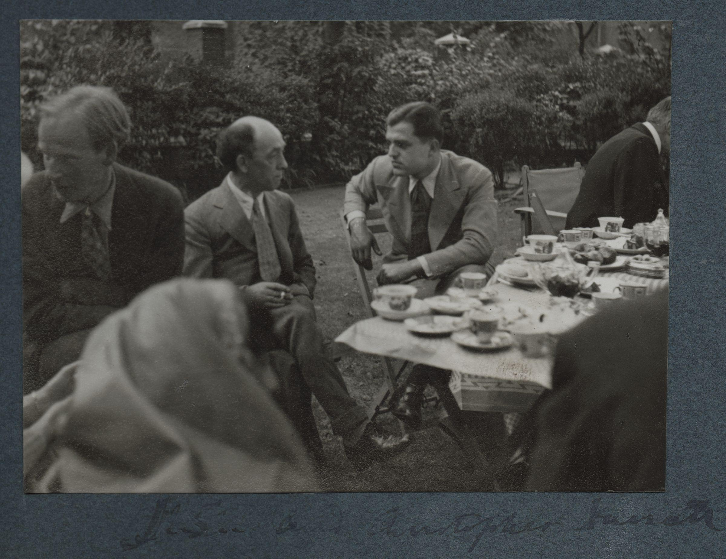 Stephen Potter; James Stephens; Christopher Hassall, by Lady Ottoline Morrell (died 1938).